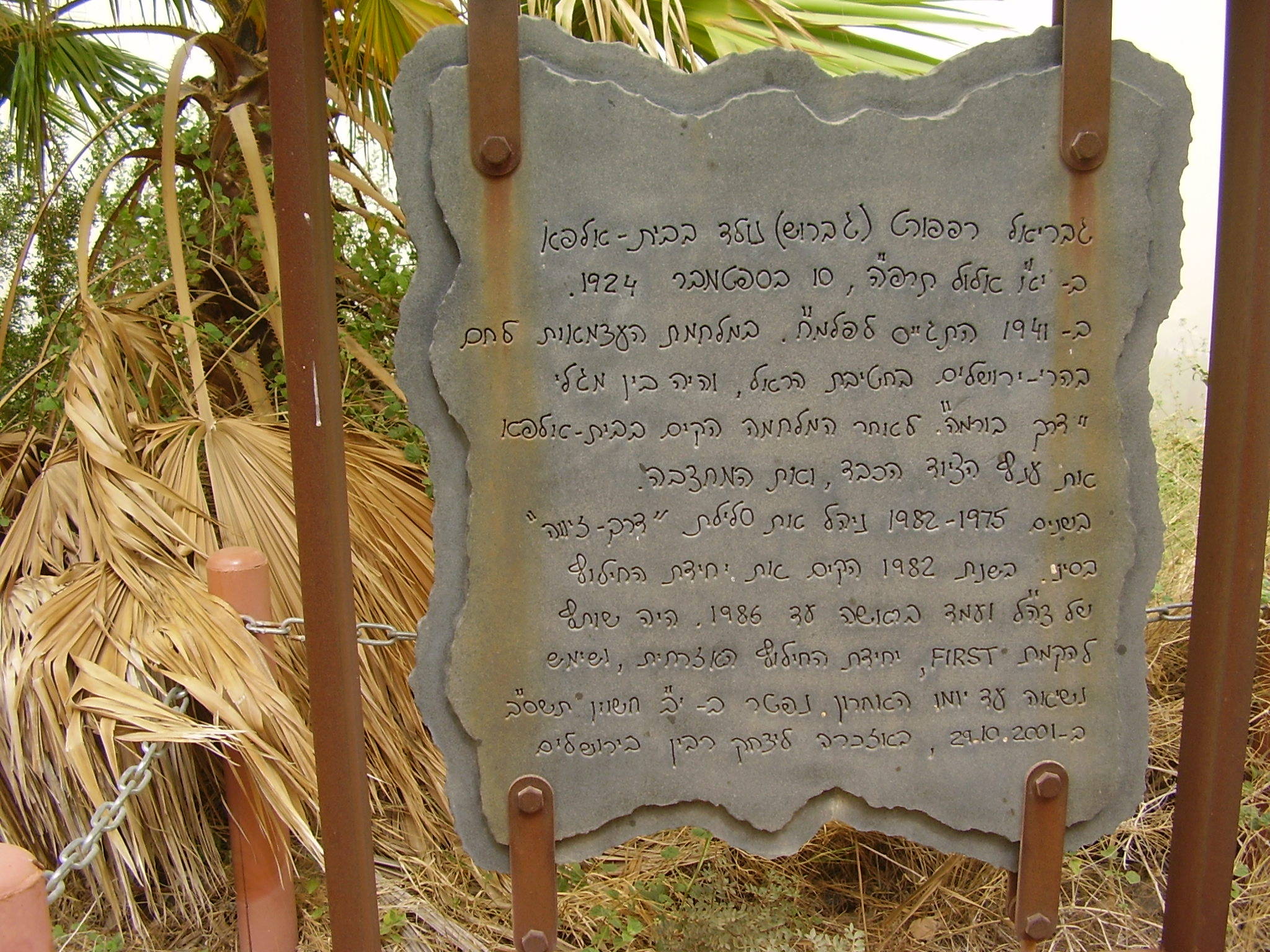 gavrosh lookout in kibbutz bet -alpha